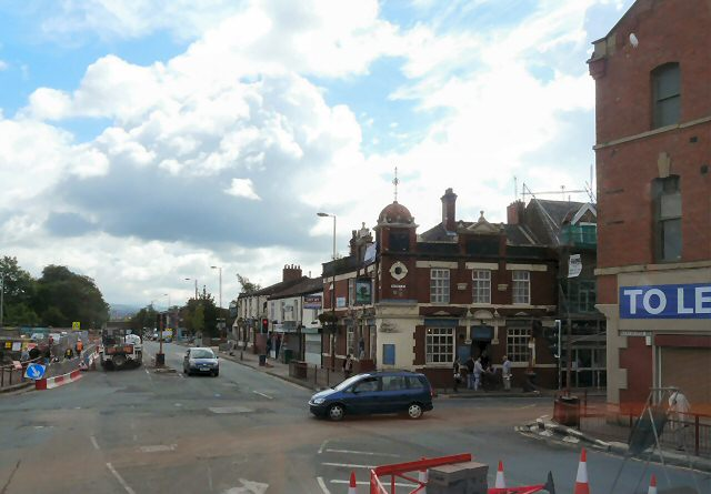 Town centre of Droyslden, Greater Manchester